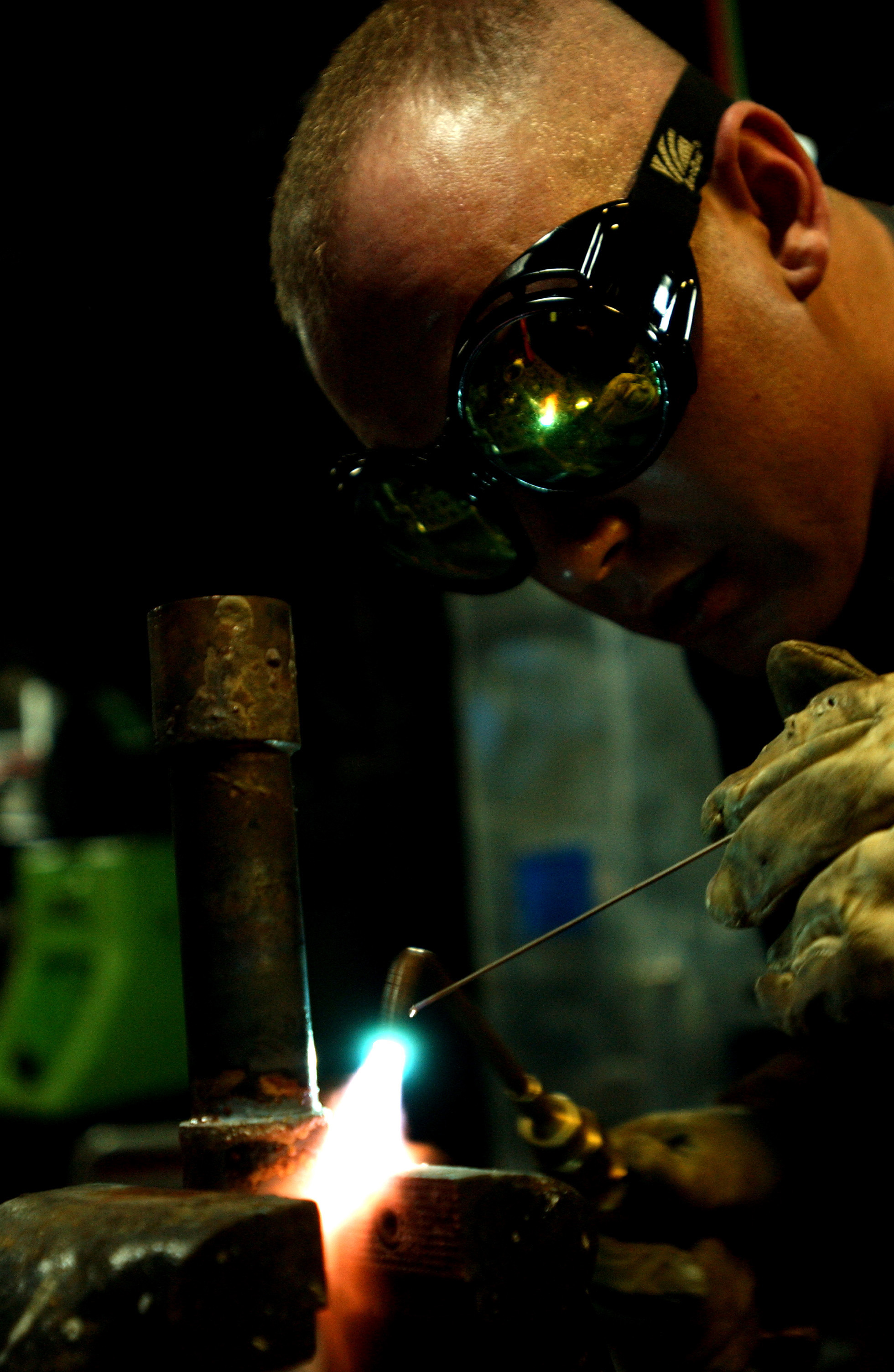 Persian Gulf (April 5, 2006) - Hull Maintenance Technician Fireman Jayson Minor assigned aboard the Nimitz-class aircraft carrier USS Ronald Reagan (CVN 76) brazes tubing in the ship’s pipe shop. Reagan and embarked carrier Air Wing One Four (CVW-14) are currently deployed as part of a routine rotation of U.S. maritime forces in support of the global war on terrorism, as well as conducting Maritime Security Operations (MSO) in the region. MSO set the conditions for security and stability in the maritime environment as well as complement the counter-terrorism and security efforts of regional nations. U.S. Navy photo by Photographer's Mate Airman Apprentice Benjamin Brossard (RELEASED)